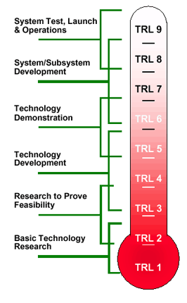 NASA graphic showing Technology Readiness Levels